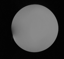 A magnetic susceptibility artifact. Phantom shows local distortion and signal loss as a result.